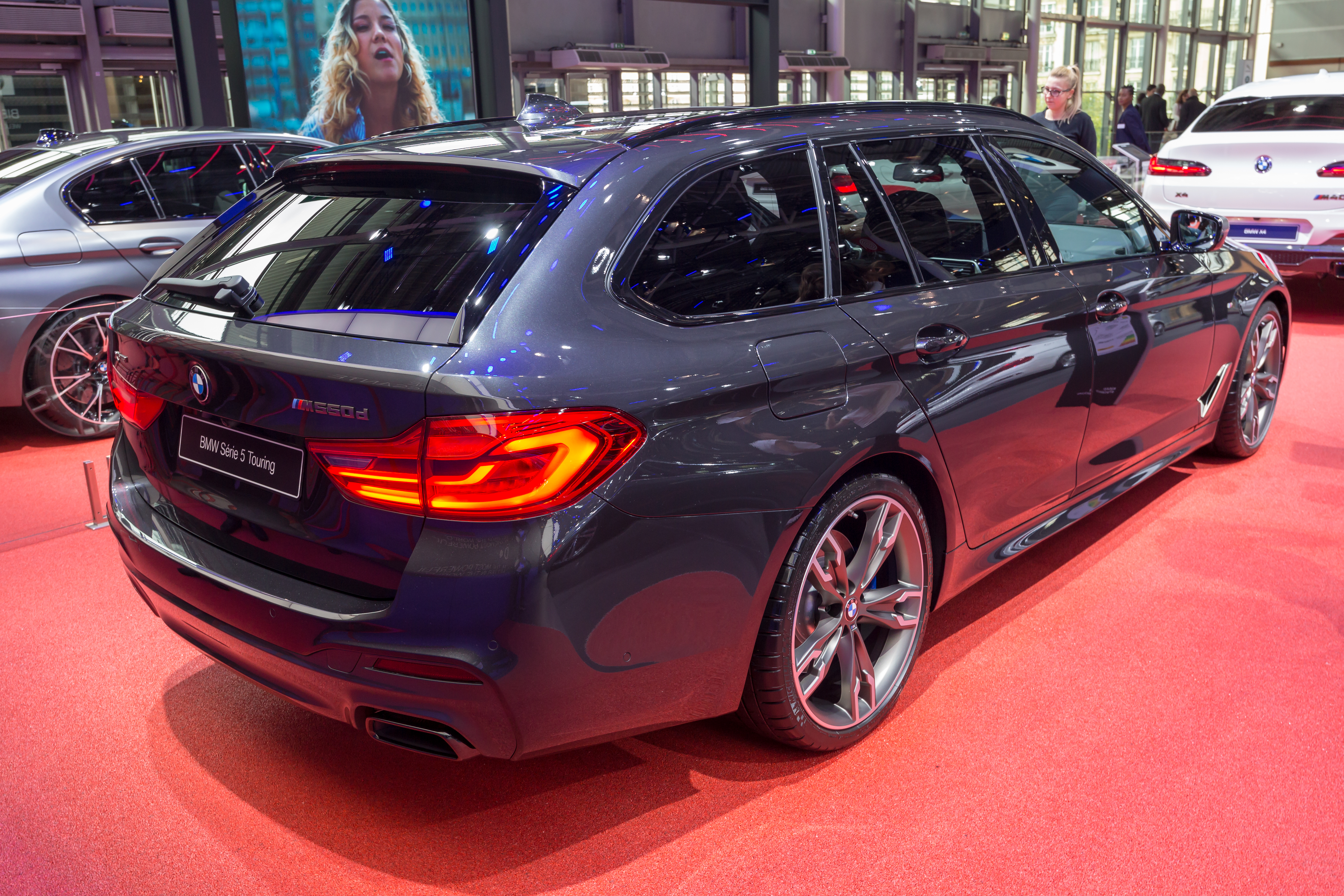 BMW M550xd, Mondial Paris Motor Show 2018